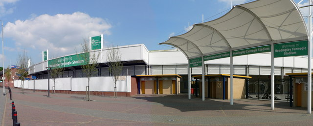 North Stand and entrance, Headingley Carnegie Stadium. The back of the North Stand of the Cricket Ground, and gate G. Kirkstall Lane is on the left. For a view inside the stadium see 60635. The gates also give access to the Rugby ground.